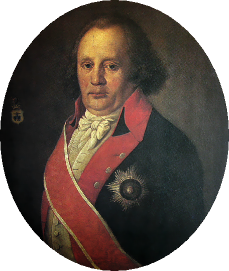 Portrait of Tadeusz Gedeon Trzciński (1746-1799)